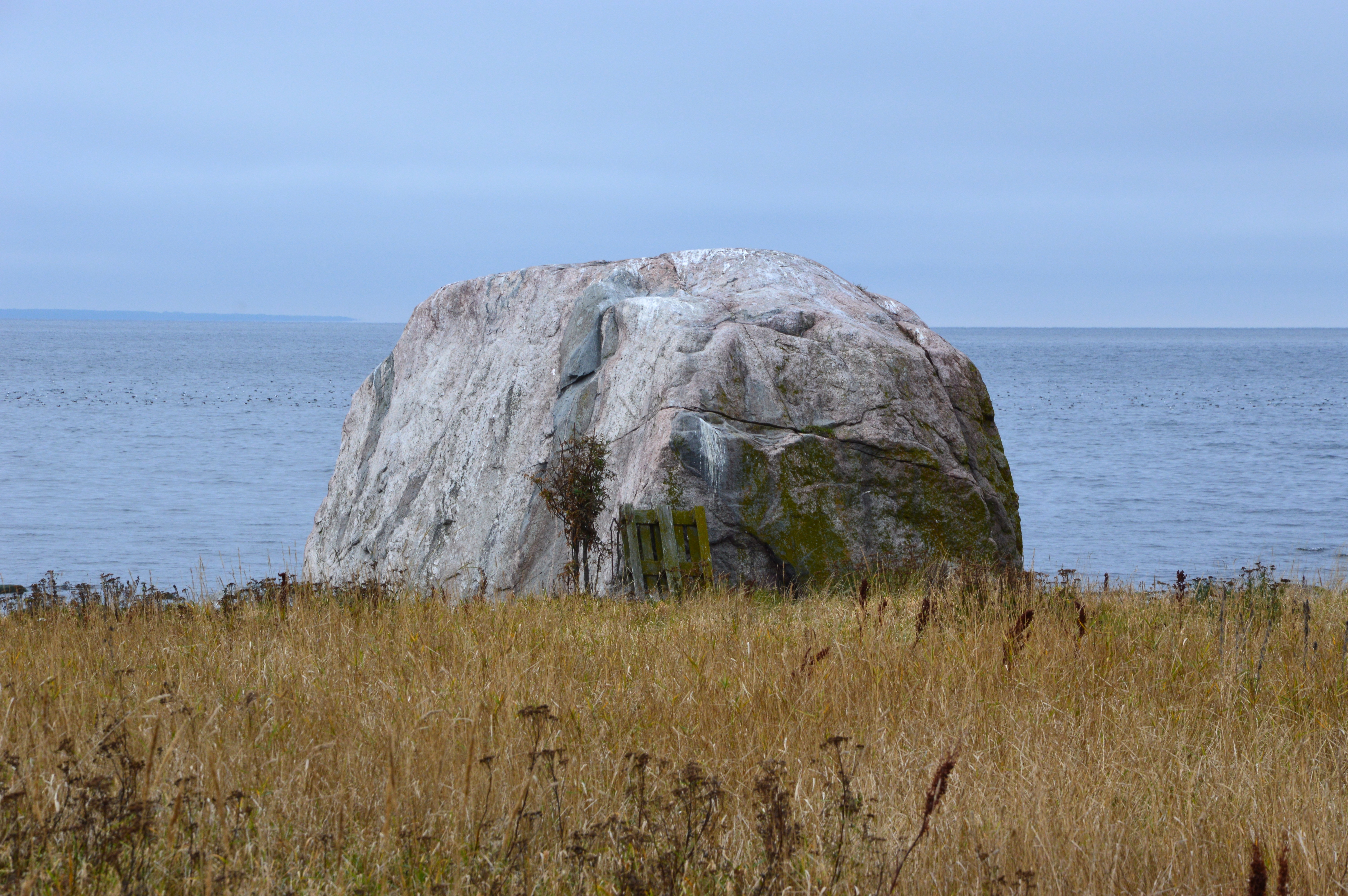 Malusi glacial erratic in Estonia.